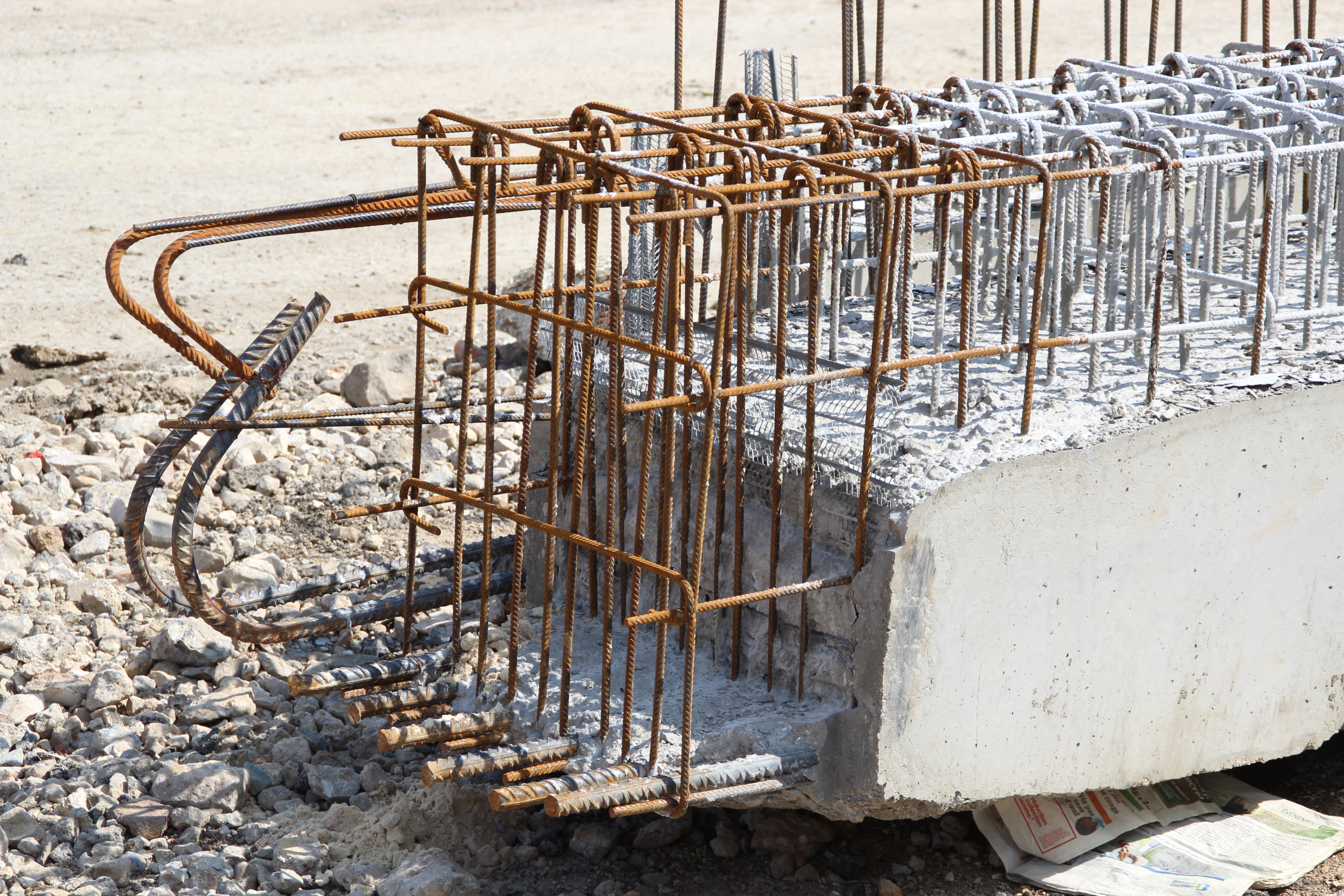 Construction site of the complexe associatif multifonctions in Antony, Hauts-de-Seine, France.